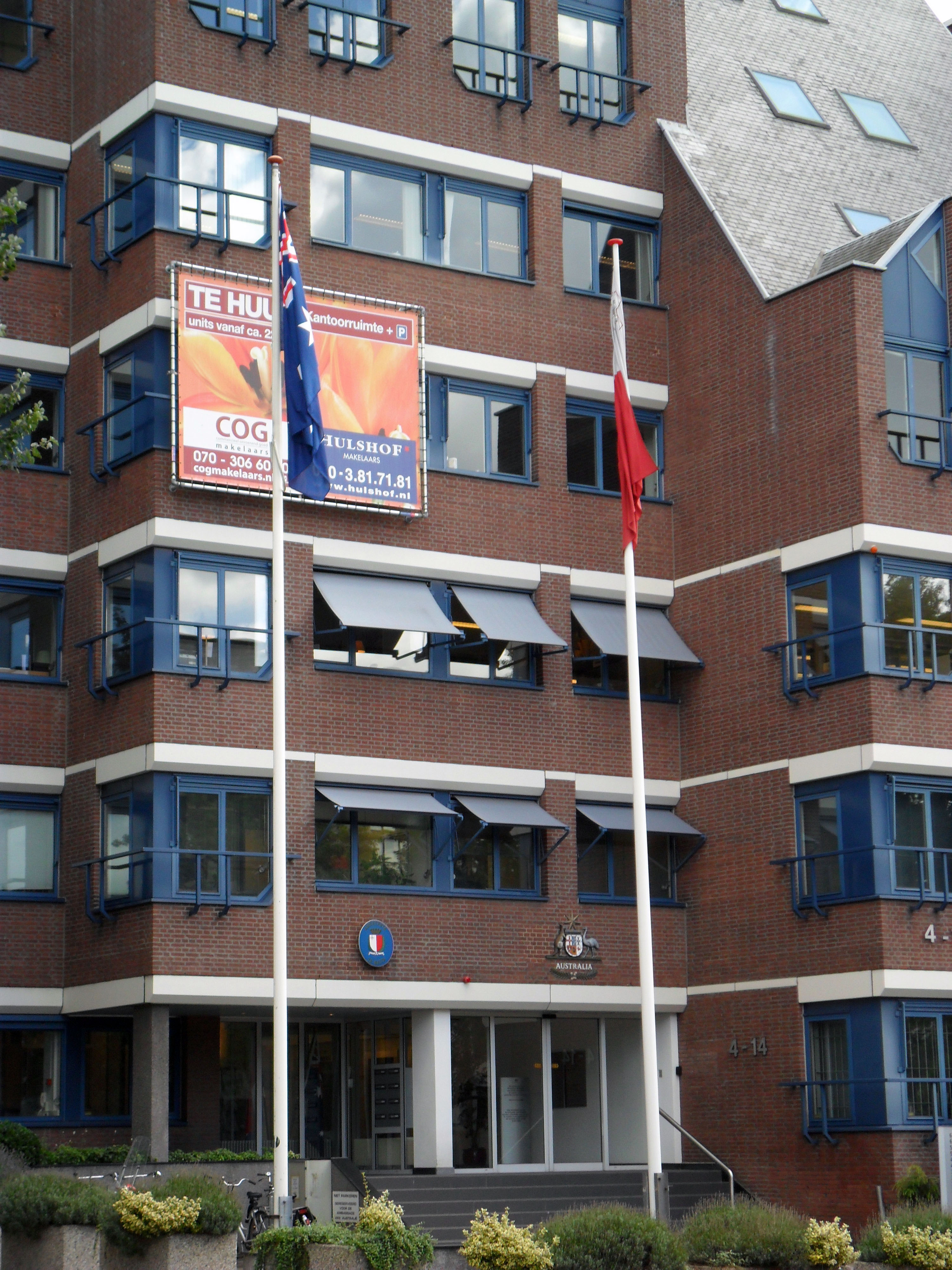 Embassies of Australia and Malta, The Hague, Netherlands